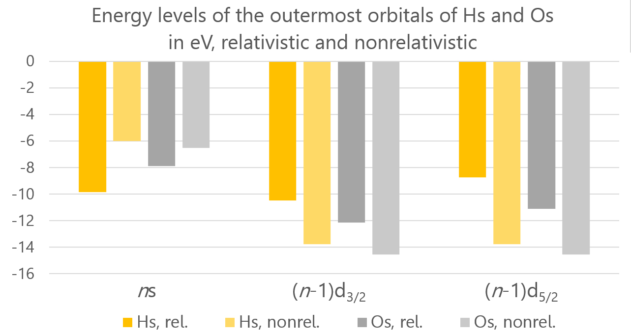 Energy levels of outermost orbitals of Hs and Os in eV, relativistic and nonrelativistic. Source: Values for Hs in the source: 0.3842 (6d3/2r), 0.3202 (6d5/2r), 0.3617(7sr), 0.5054 (6dnr), 0.2200 (7snr) (note omitted negative signs) Analogously for Os: 0.4465, 0.4078, 0.2891, 0.5342, 0.2388. Values are given in hartrees in the source.